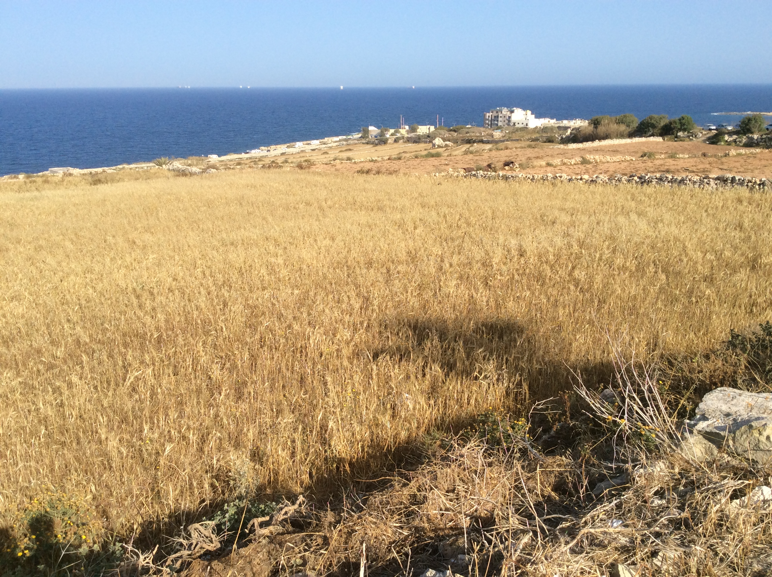 Site for the future American Institute of Malta